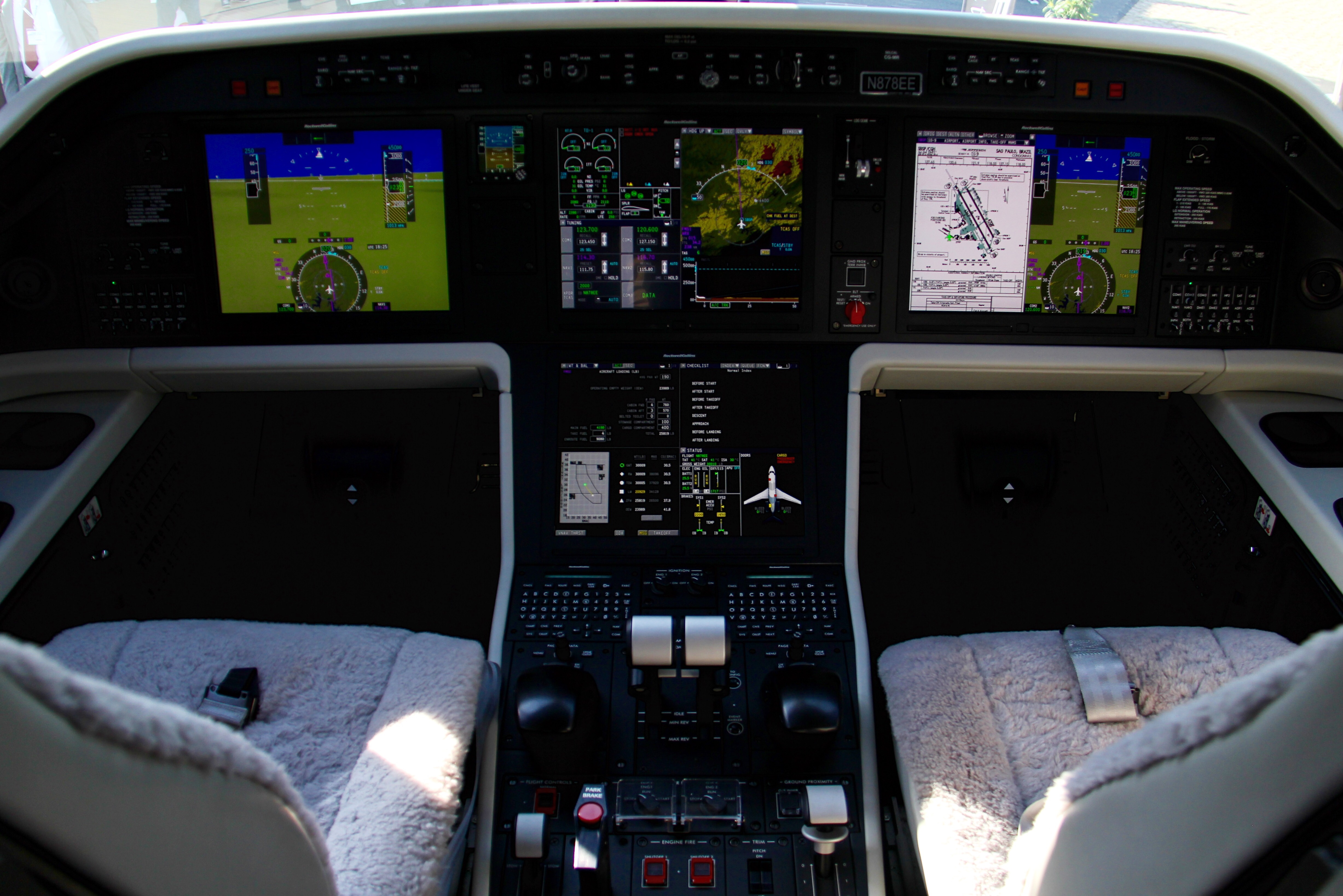 Embraer Legacy 500 (N878EE) cockpit